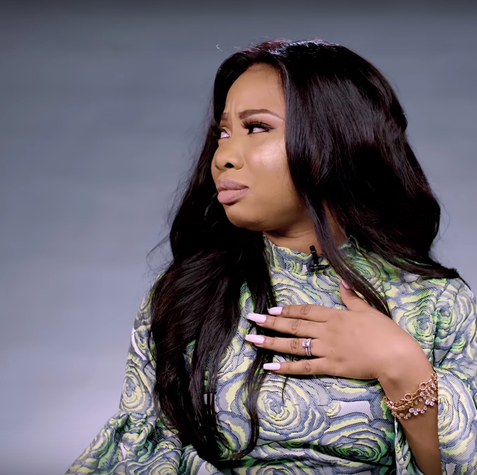 Mocheddah on TGIF on NdaniTV in March 2019